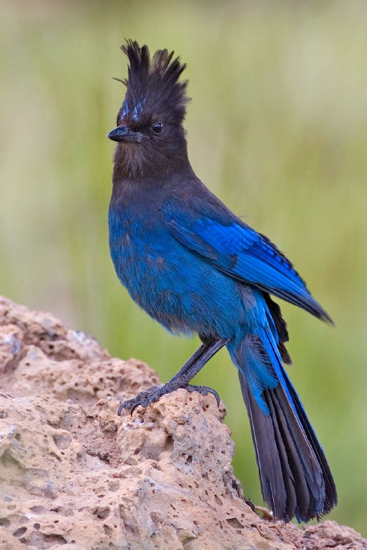 Steller's Jay (Cyanocitta stelleri), Cabin Lake Viewing Blinds, Deschutes National Forest, Near Fort Rock, Oregon